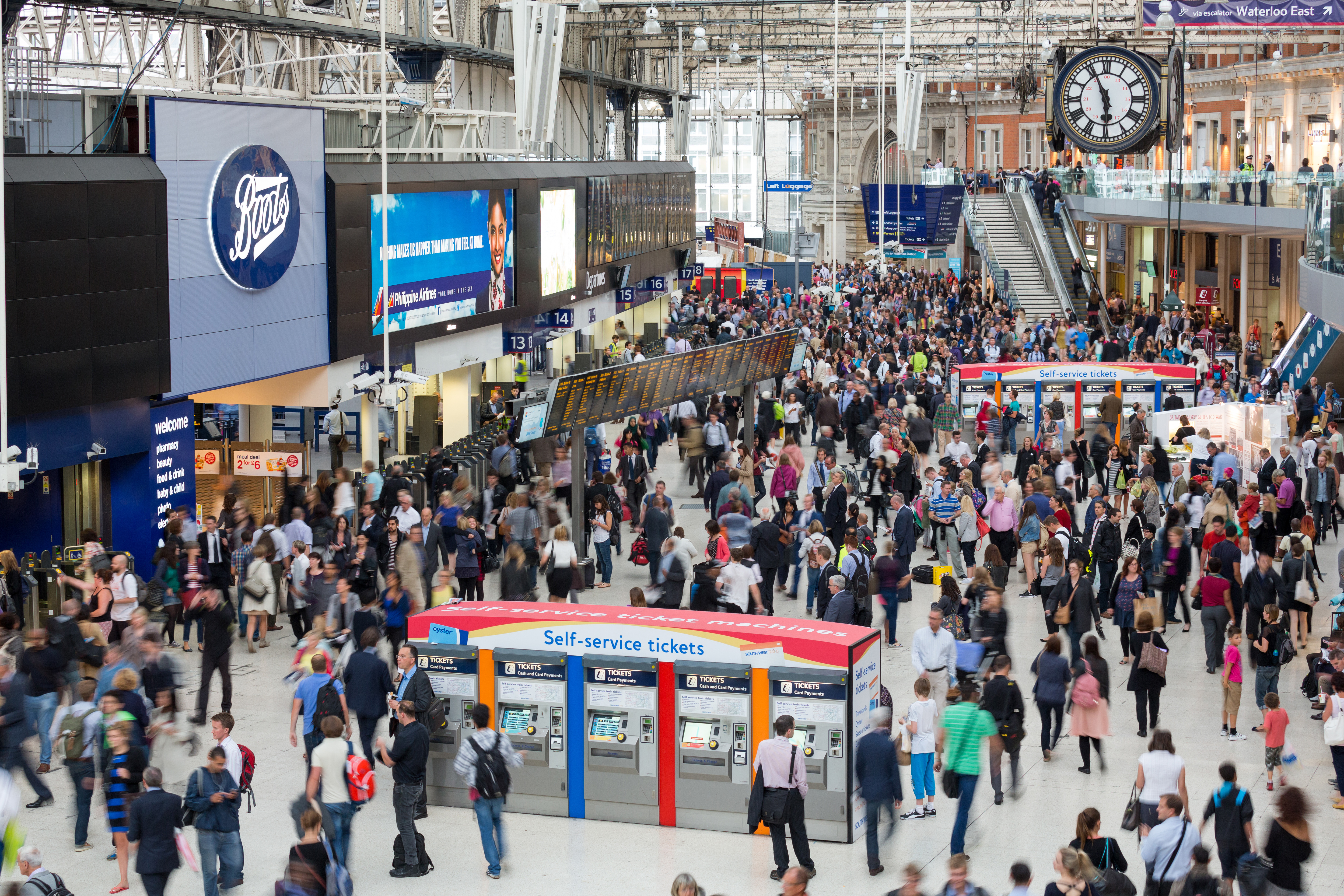 London Waterloo Station during the evening peak hour rush in London, England.